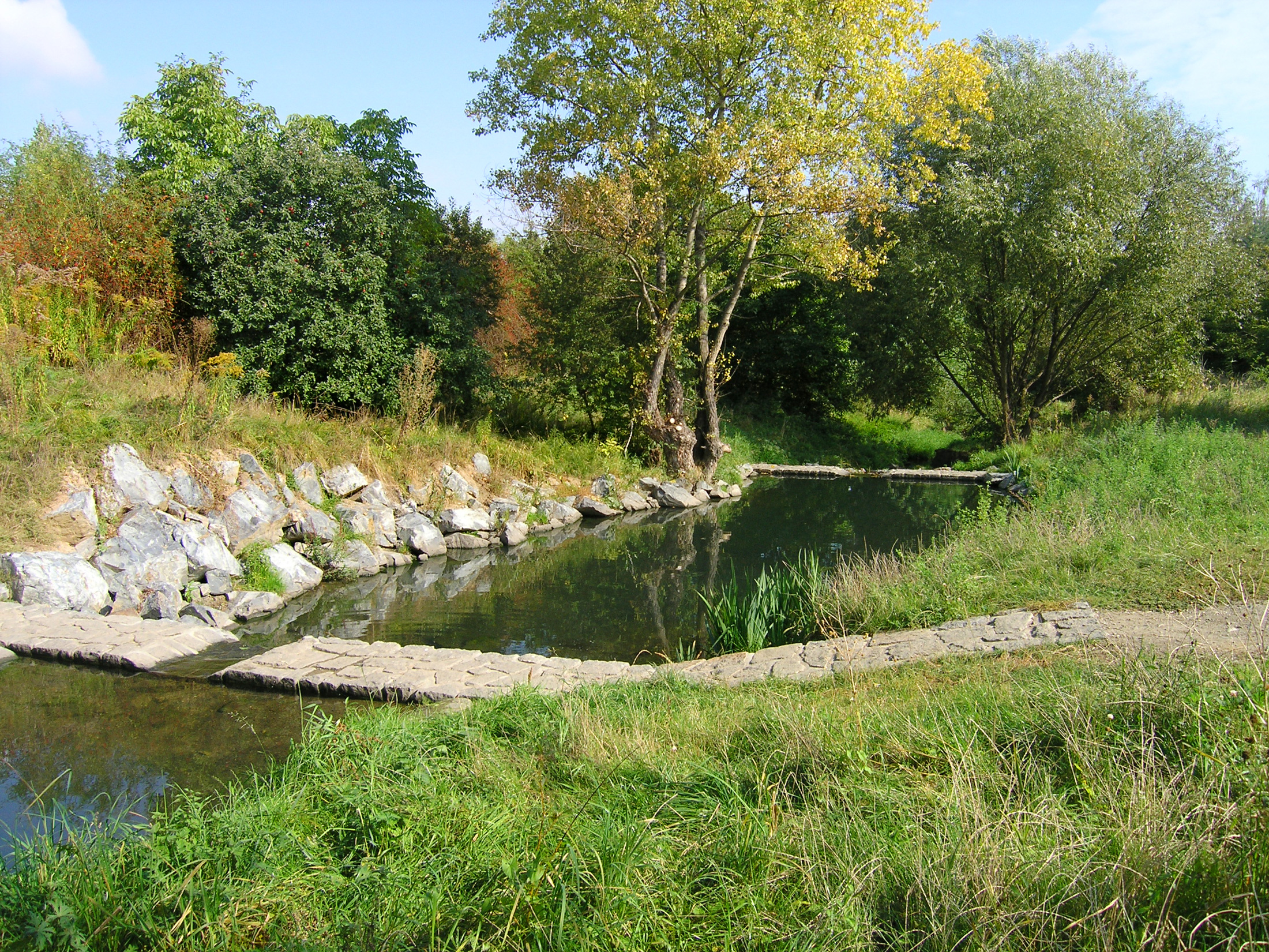 Košíkovský creek at the north part of Chodov, Prague